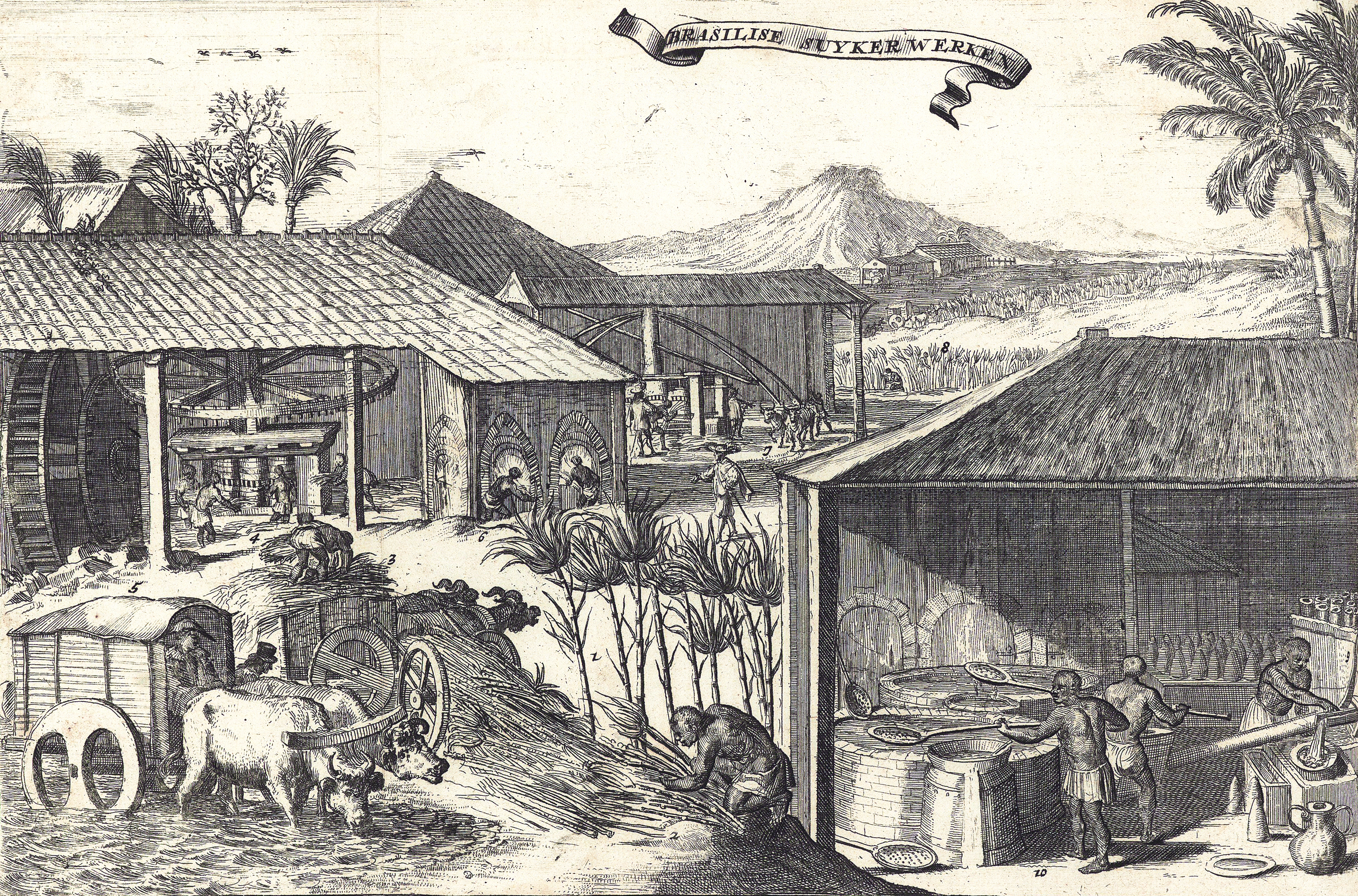 Indians working in sugar mill in the 16th century